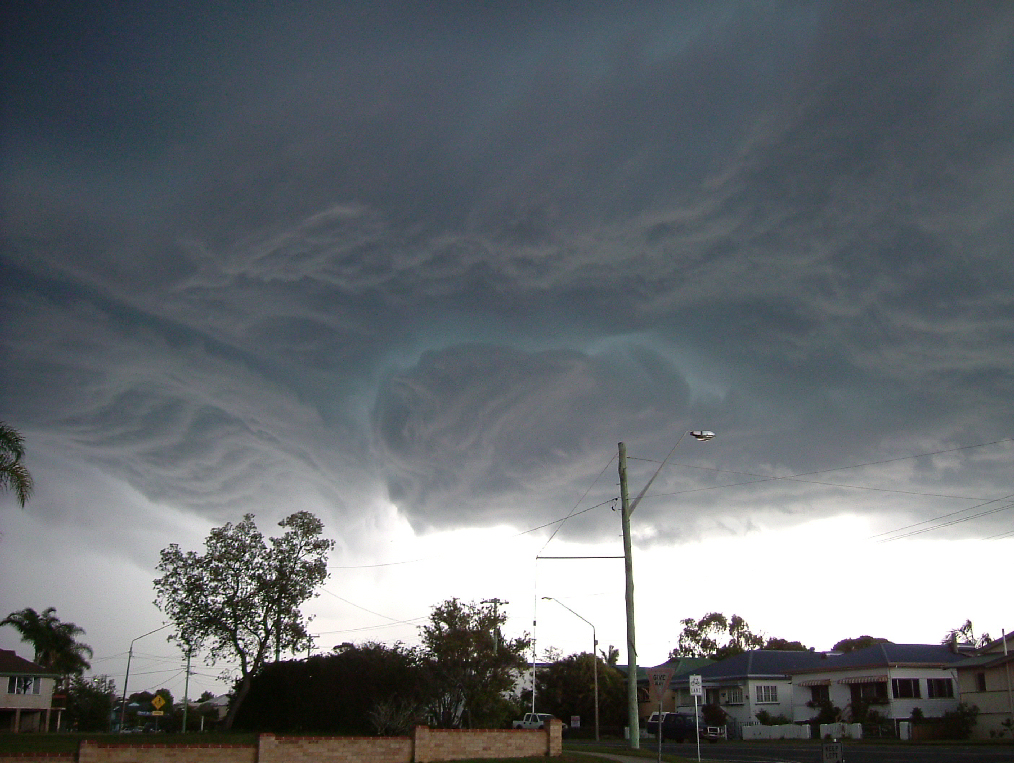 Hail storm, Brunswick Heads New South Wales Australia